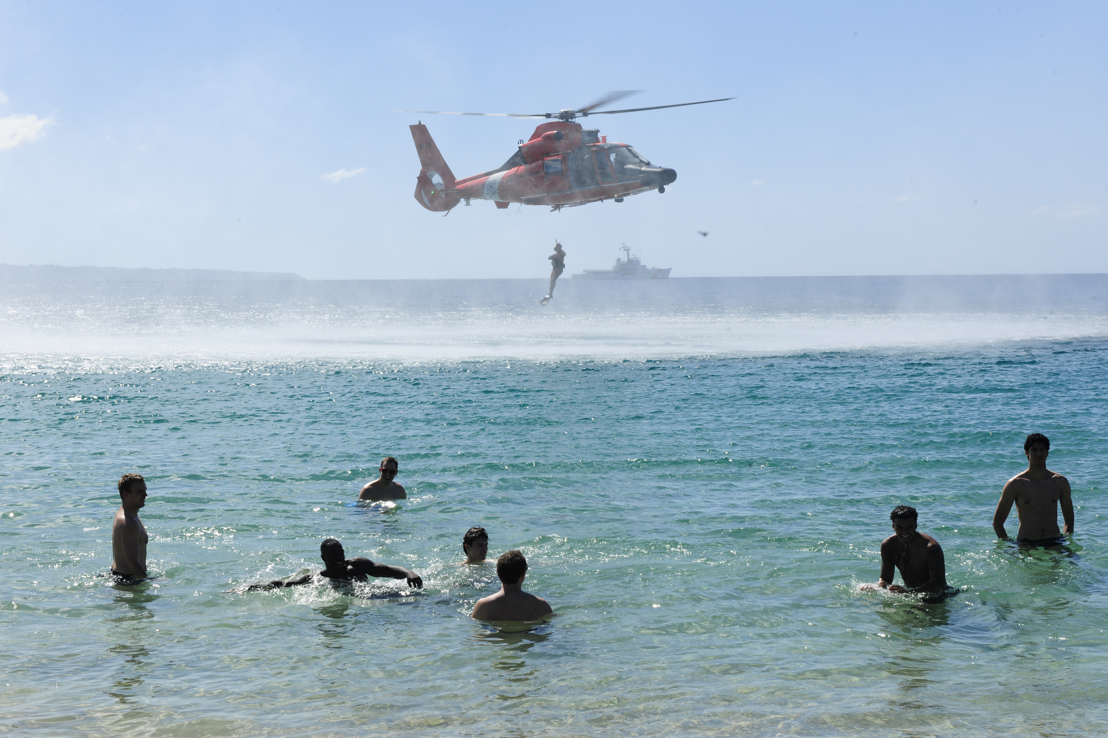 A helicopter crew conducts a search and rescue demonstration at Crash Boat Beach in Aguidilla, Puerto Rico, Thursday, Nov. 13, 2014. U.S. Coast Guard Air Station Borinquen is hosting the 2014 Armed Forces Classic between the University of Louisville and the University of Minnesota. (U.S. Coast Guard photograph by Chief Petty Officer NyxoLyno Cangemi)